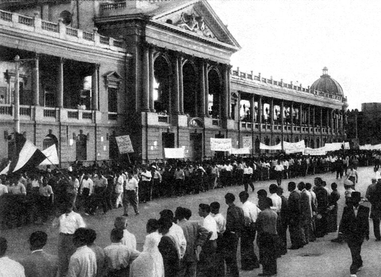 Tehran Toopkhaneh Square Early 1950s : Different groups of people in a Demonstration supporting Nationalization of Oil Industry